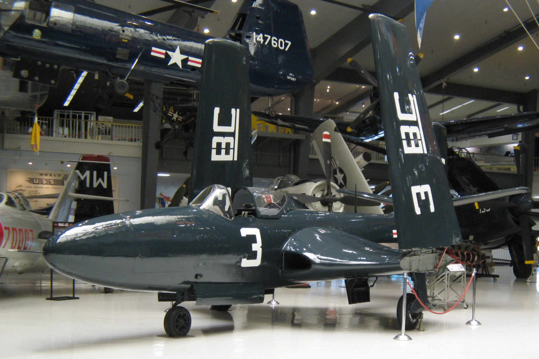 McDonnell FH-1 Phantom, Naval Aviation Museum, Pensacola, Florida